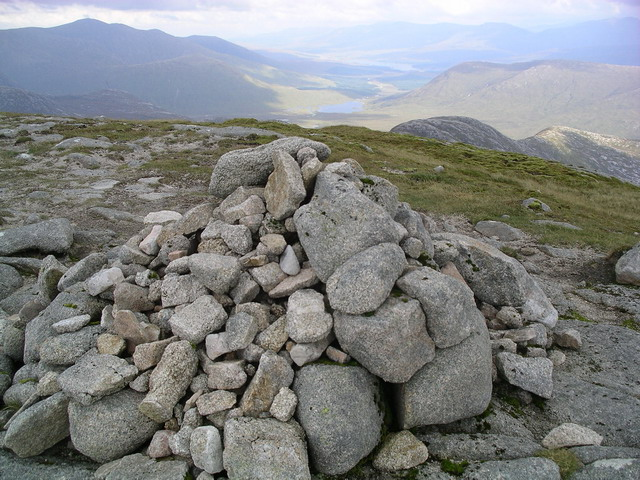 Beinn nan Aighenan : Munro No 196. The 960m summit cairn, and beyond looking East to Loch Tulla.